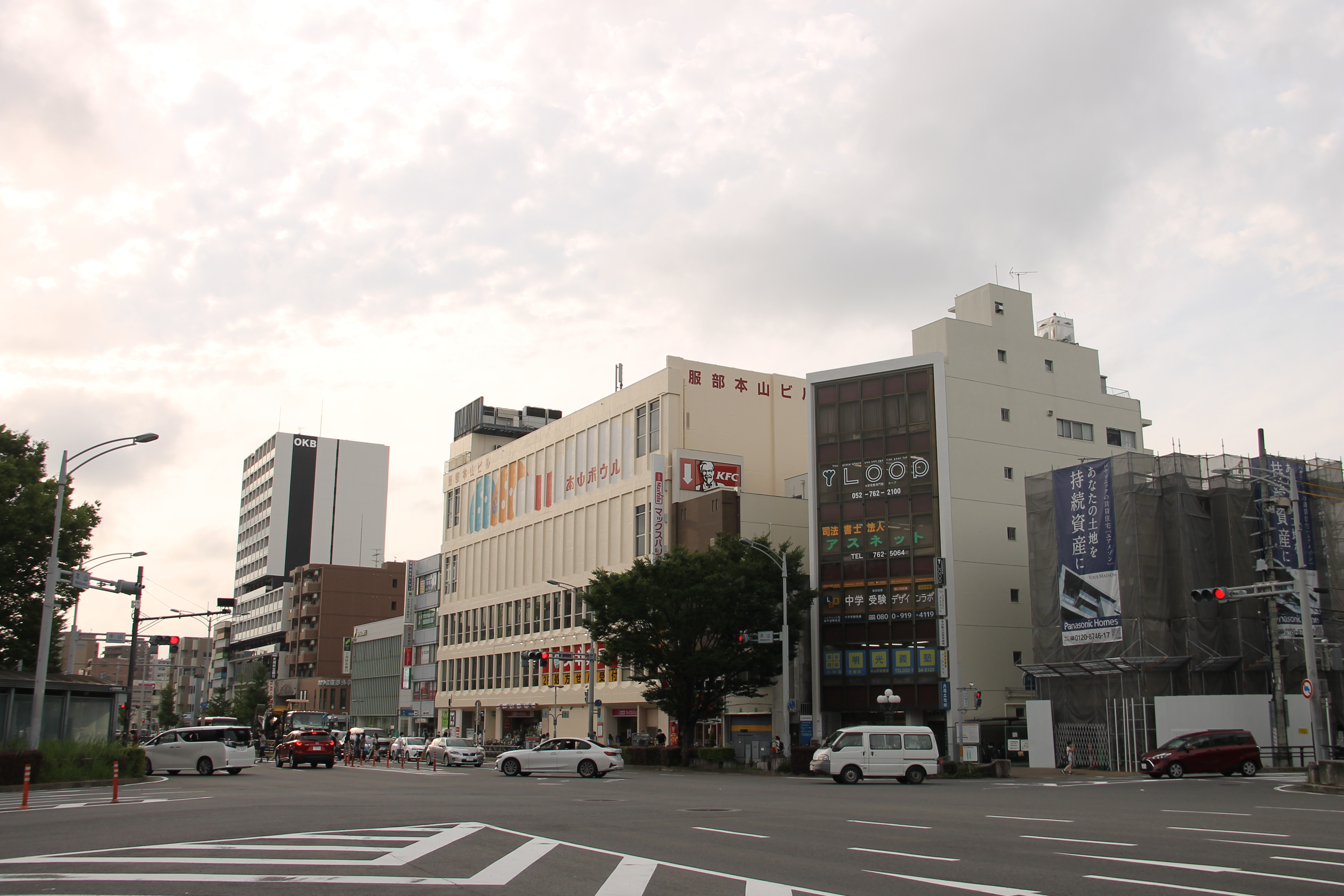 Motoyama Intersection located in Chikusa Ward, Nagoya City, Aichi Prefecture. It is over the Motoyama Station.